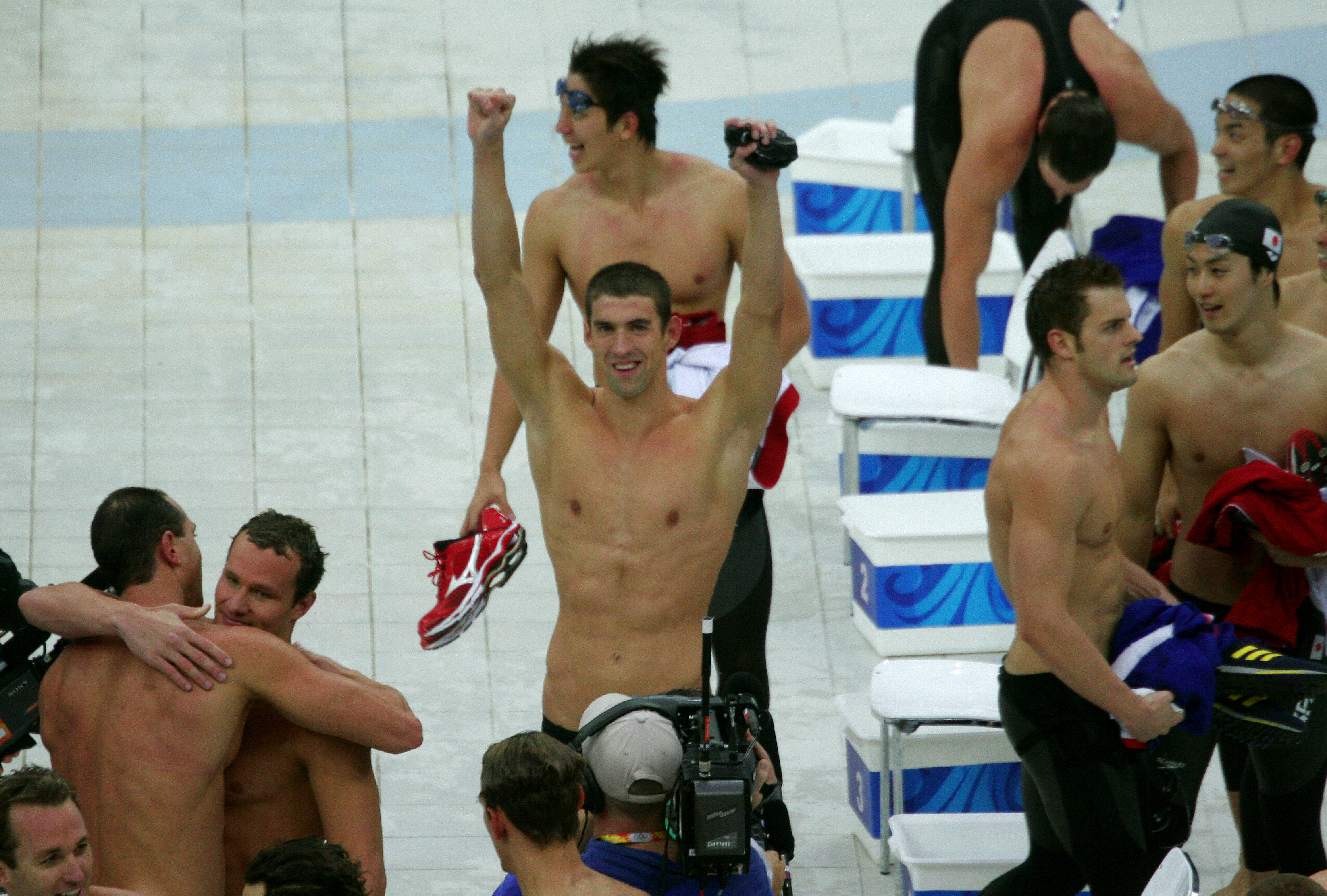 American swimmer Michael Phelps, along with his teammates, celebrates winning gold in the men’s 4 x 100-meter medley relay. It was amazing to witness.